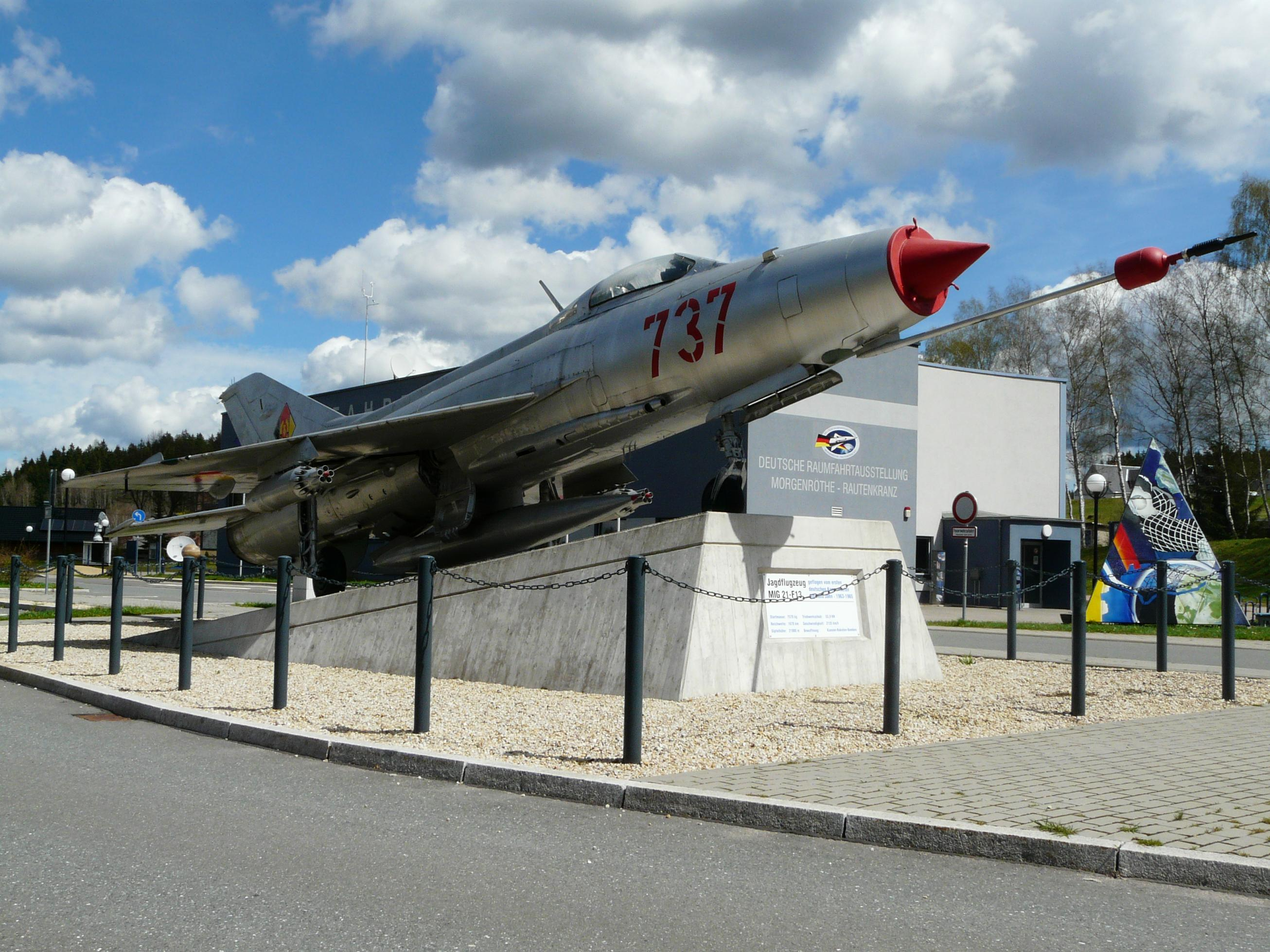 Gateguard Mikoyan-Gurevich MiG-21F-13 of the National People's Army, used by the first german astronaut Sigmund Jähn, in front of the Deutsche Raumfahrtausstellung (German Space Exposition) in Morgenröthe-Rautenkranz.